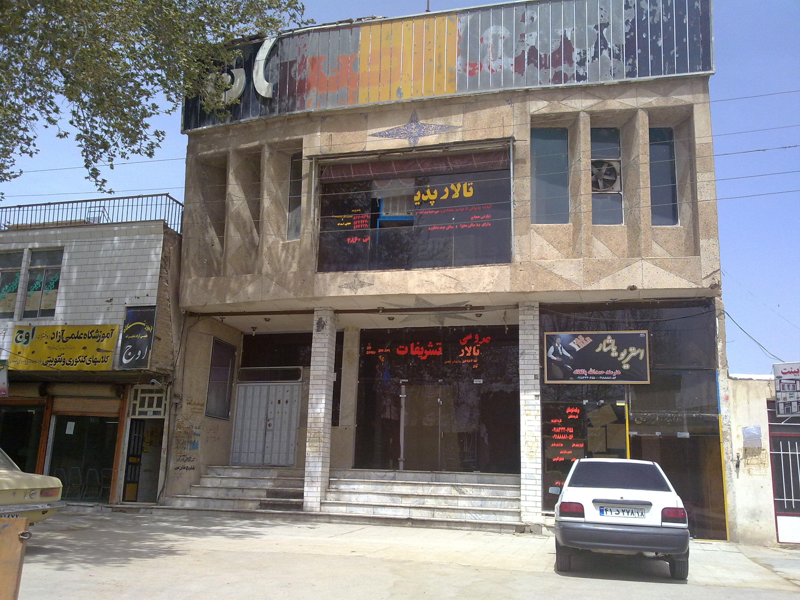 Only cinema hall of Islam-Abad-e Gharb has been shuted from many years before, now there is no cinema and any other cultural centers in the city.